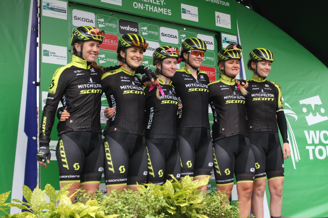 The Mitchelton-Scott cycling team before the third day of the 2019 Women's Tour. The riders are Sarah Roy, Jessica Allen, Grace Brown, Gracie Elvin, Alexandra Manly and Georgia Williams.